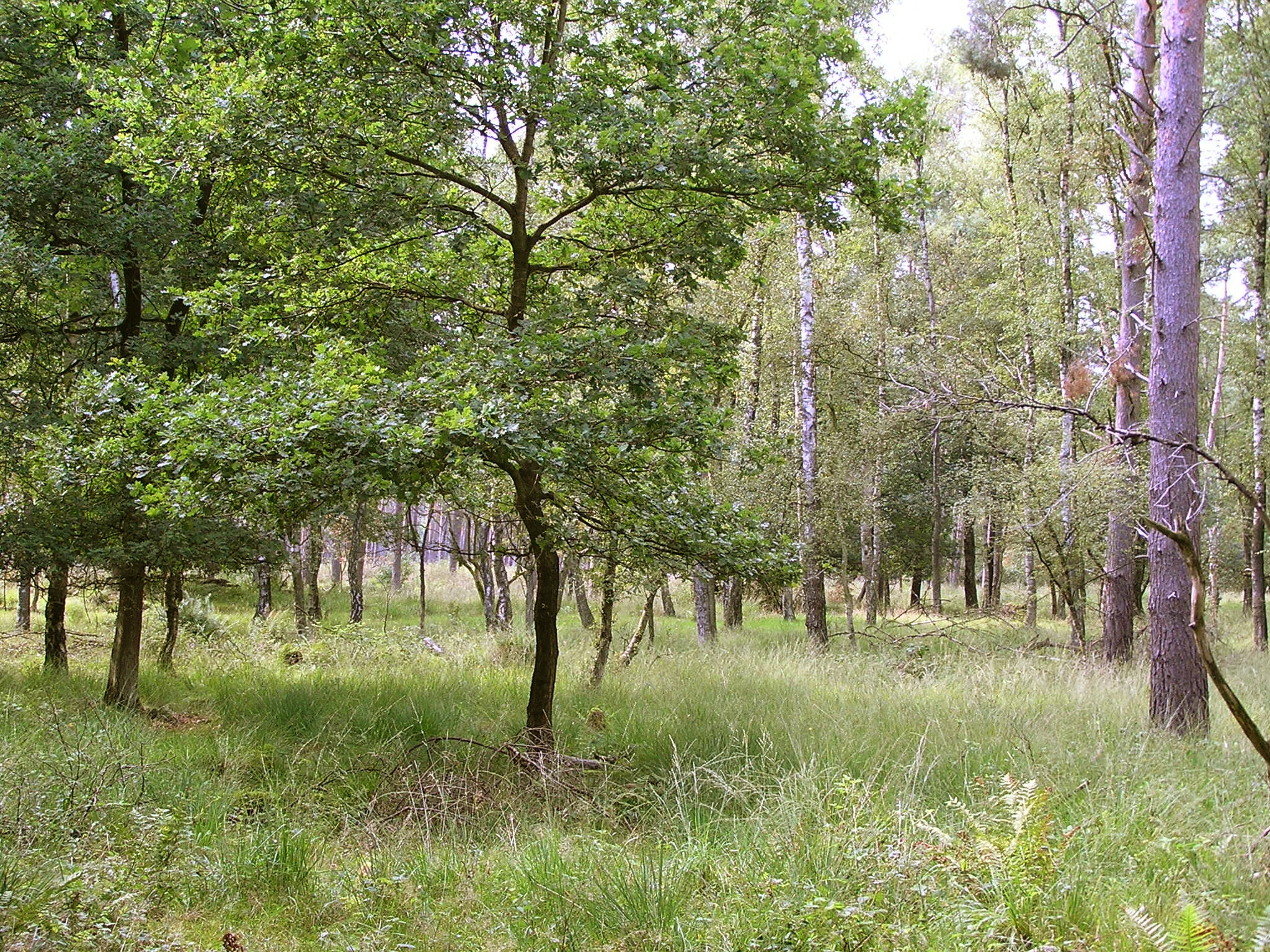 Pines, birches and oaks in the forest Üfter Mark, Dorsten, Germany